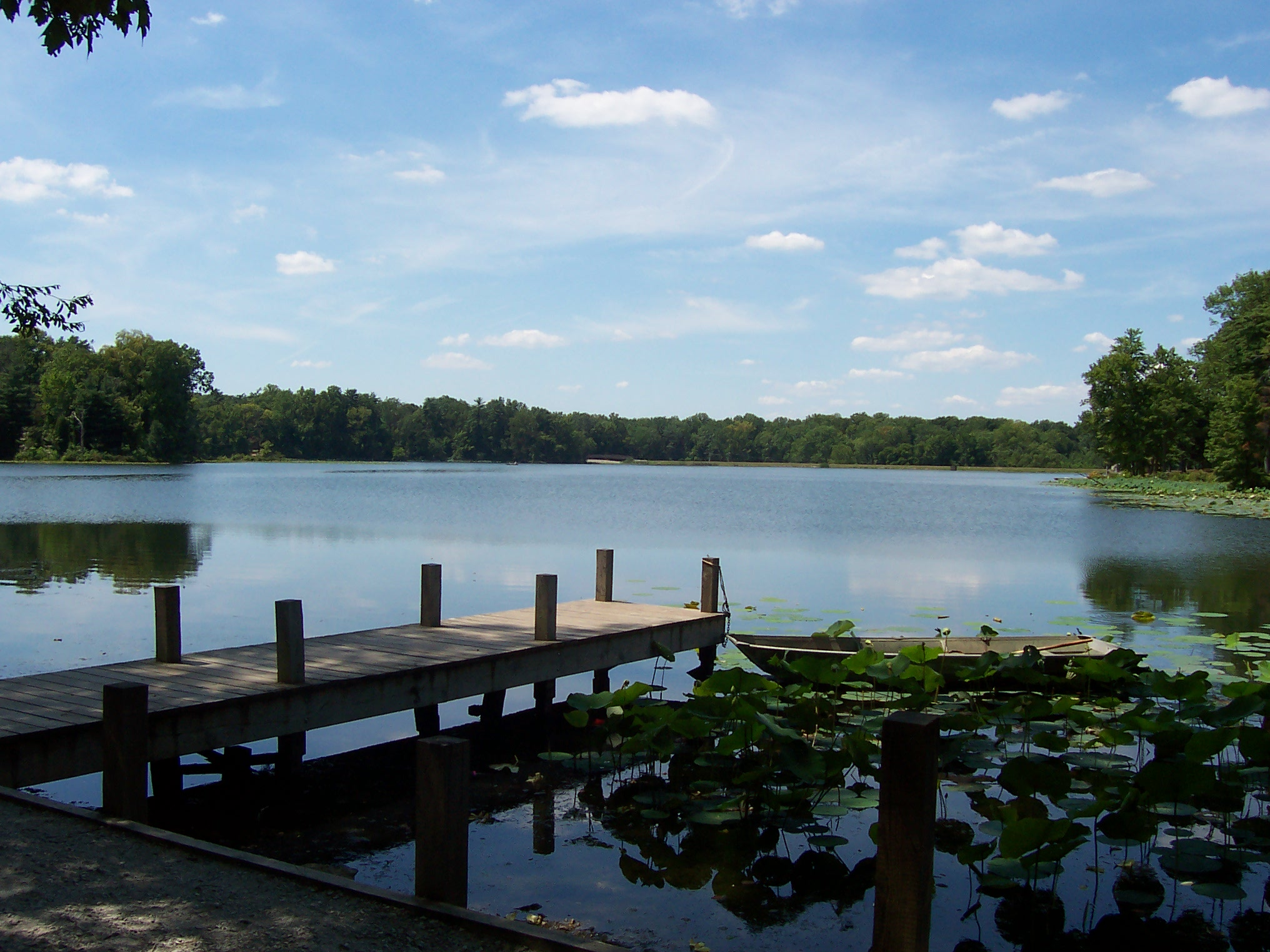 Lincoln State Park, Lincoln, Indiana. The park's largest lake.